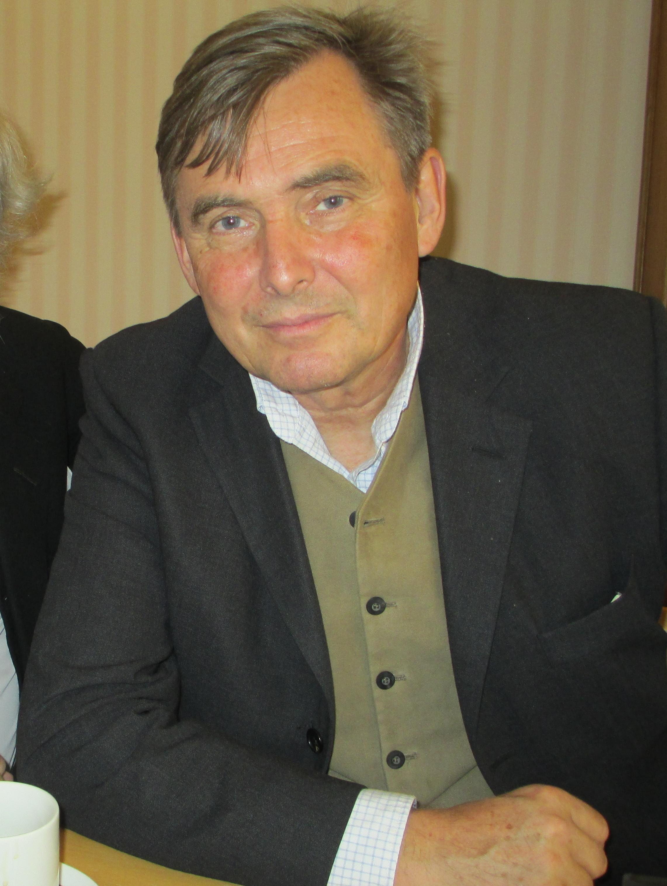 Swedish photographer Bruno EhrsPlace: Spånga prästgård, Stockholm, Sweden